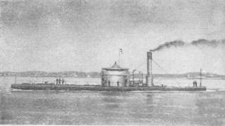 Imperial Russian turret armour-clad boat Bronenosets.